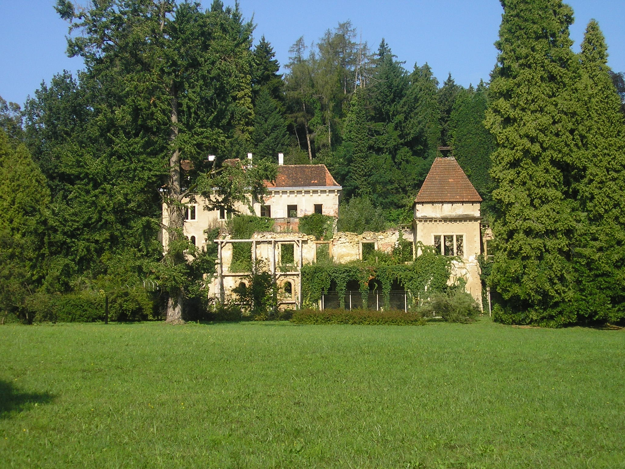 Opeka Manor, Vinica municipality, Varaždin county, Croatia